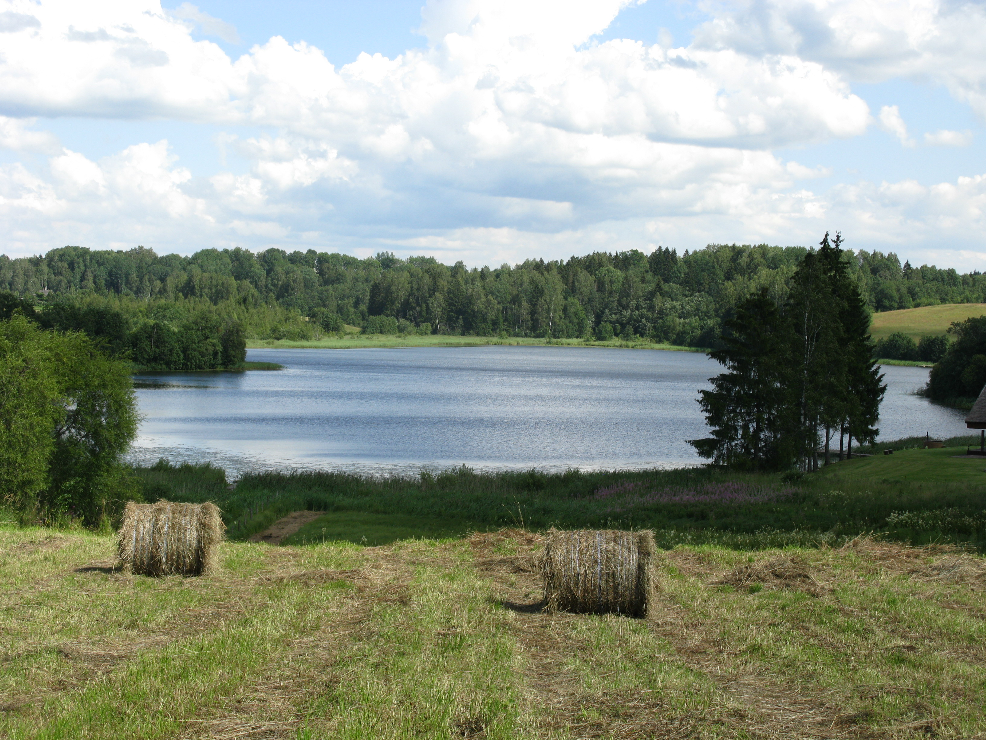 Lake Vidrike is located in Valga District, Estonia.